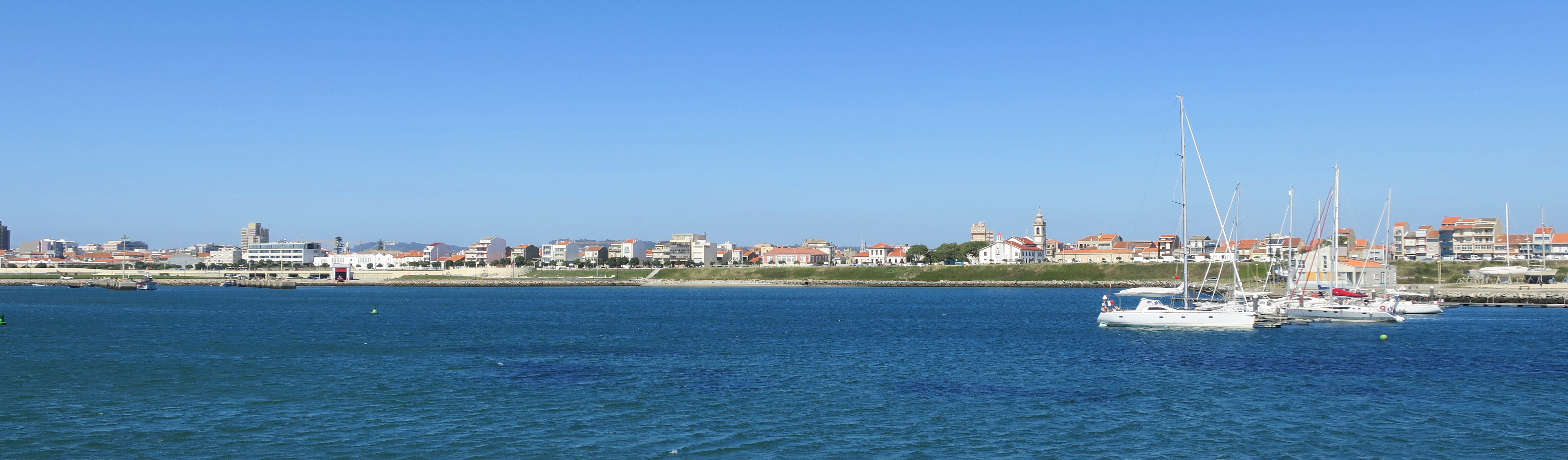 View of Bairro Sul district/neighbourhood, Póvoa de Varzim